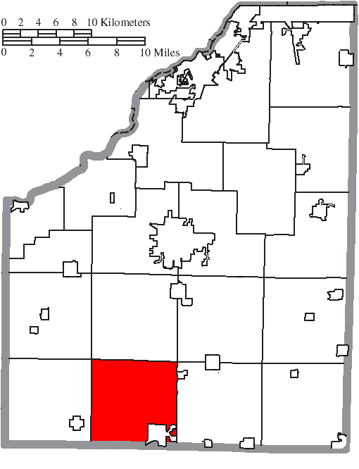 Map of the municipal and township boundaries of Wood County, Ohio, United States, as of the 2000 census, with the location of Henry Township highlighted. Township borders are shown only in unincorporated areas in order to differentiate incorporated and unincorporated areas more clearly.